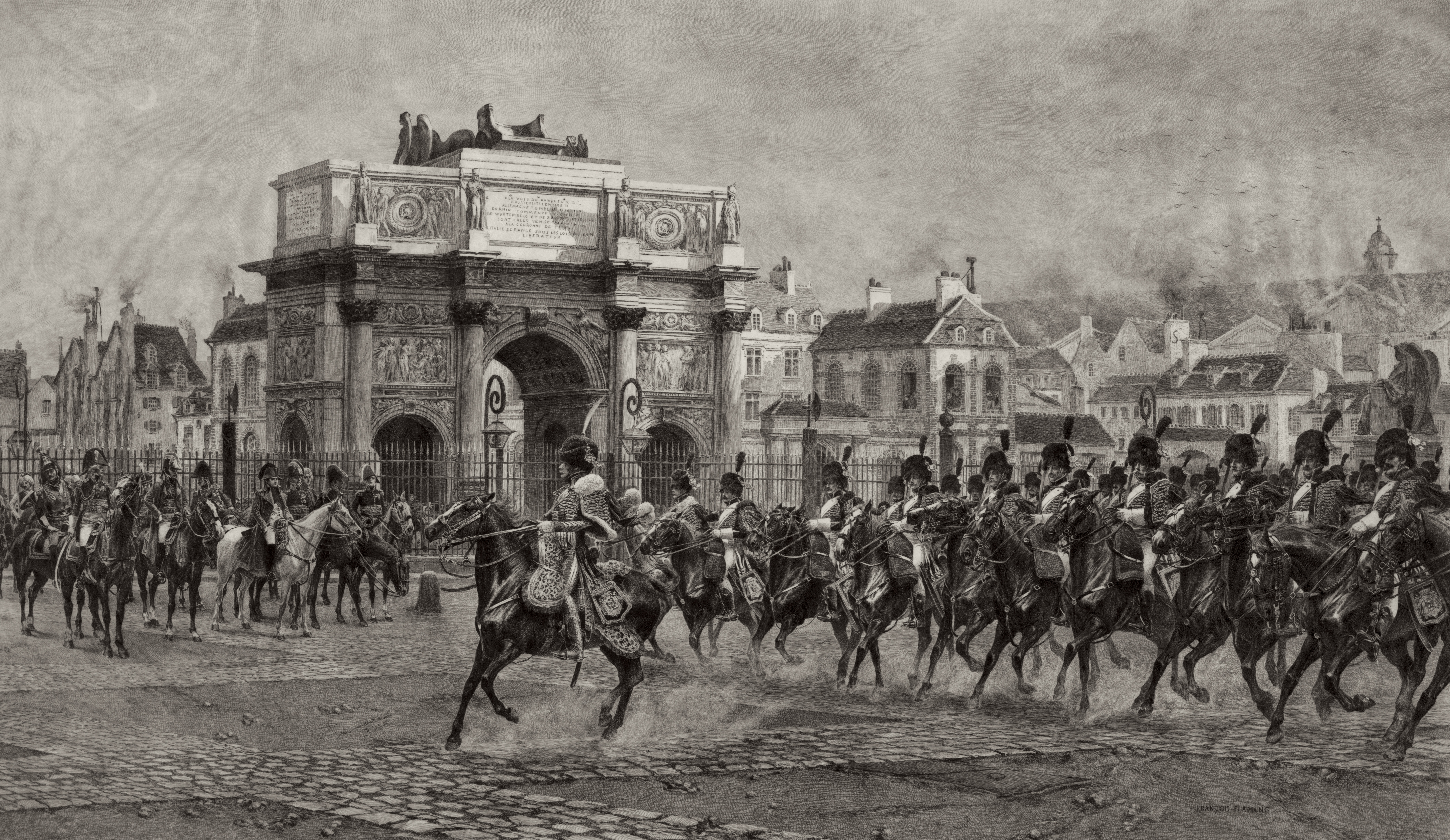 "La Revue 1810". Napoleon I, on horseback, reviewing cavalry troops passing behind the Arc de Triomphe du Carrousel in Paris in 1810. Etching by Auguste Boulard (fils) (1852-1927) after François Flameng (1856-1923)